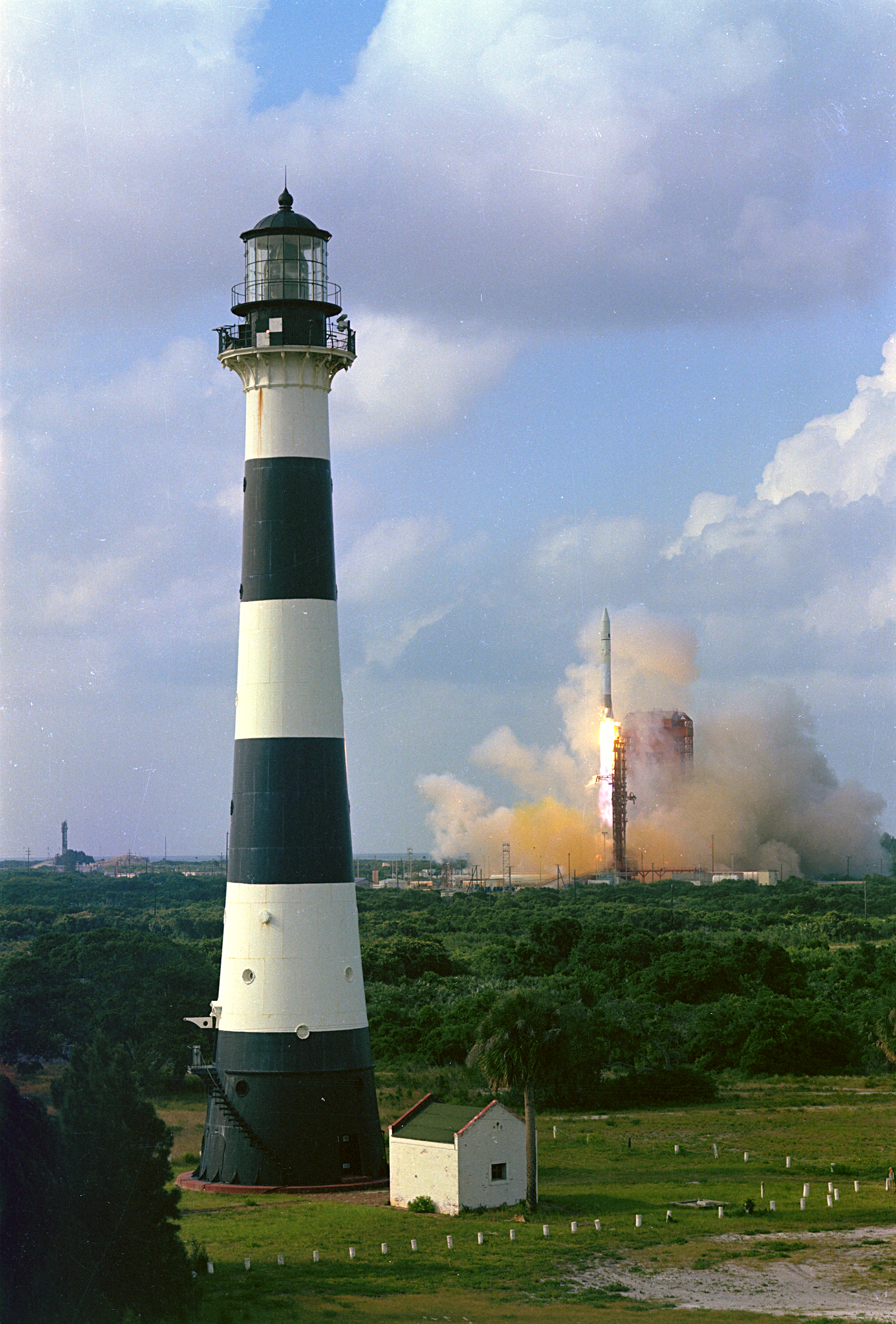 An Atlas-Centaur space vehicle lifted off at 5:53 p.m. EDT, June 13, 1972, from Complex 36B carrying an Intelsat Communications Satellite, (Intelsat IV-F5) into Earth orbit. Visible in the foreground is the lighthouse located at Cape Canaveral Air Force Station.